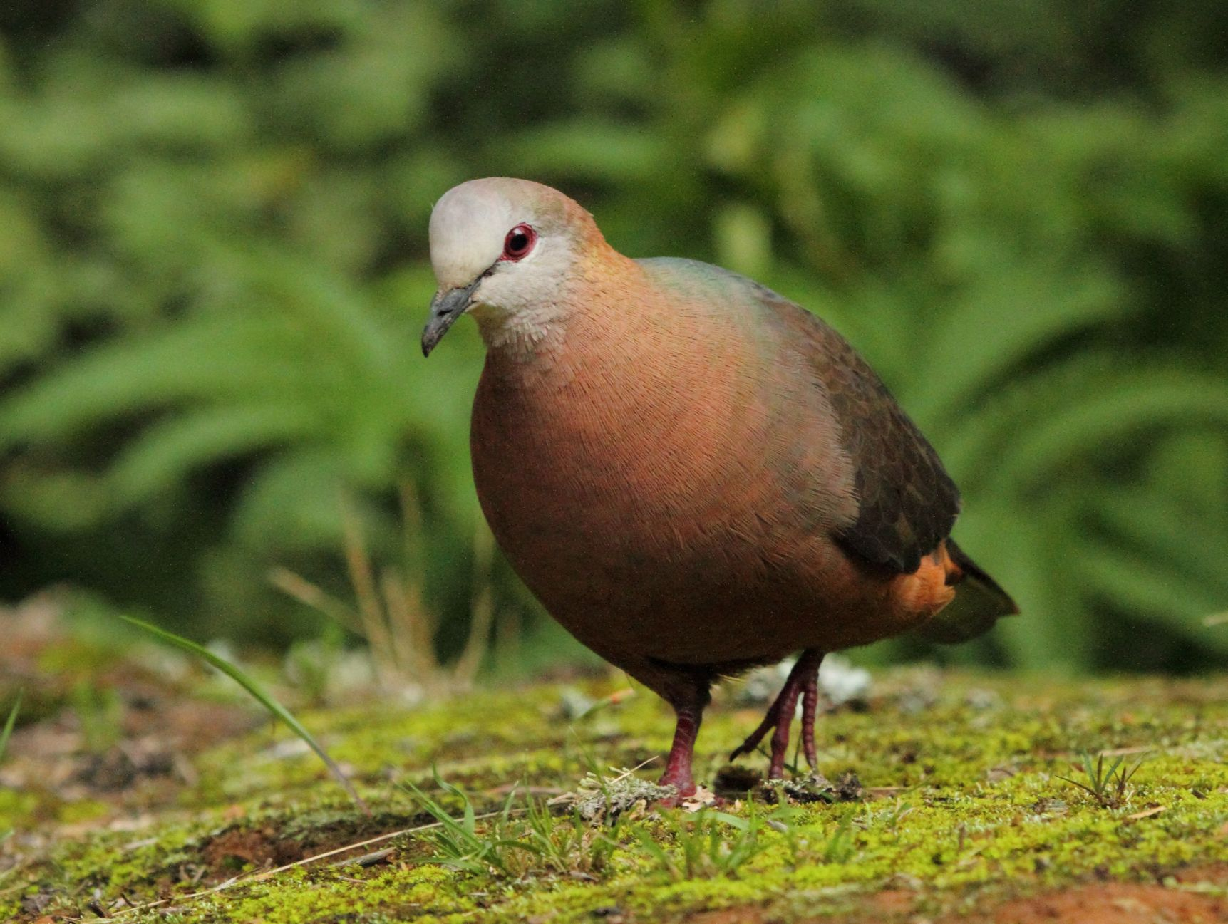 Lemon dove or cinnamon dove (Columba larvata) at Giant's Castle Game Reserve; 3 February 2012.